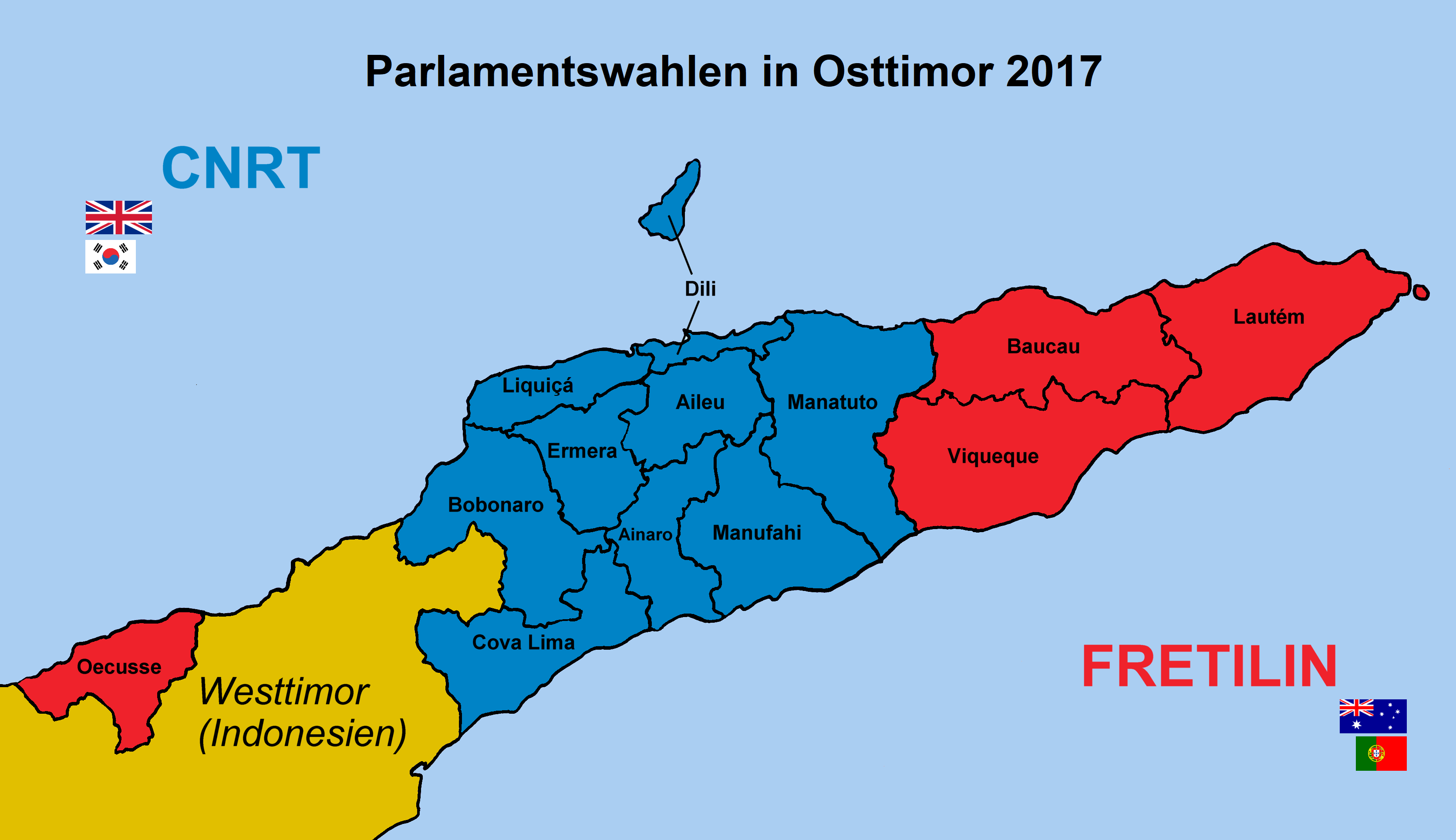 Results of parliament elections in East Timor 2017. Strongest party in each municipality.